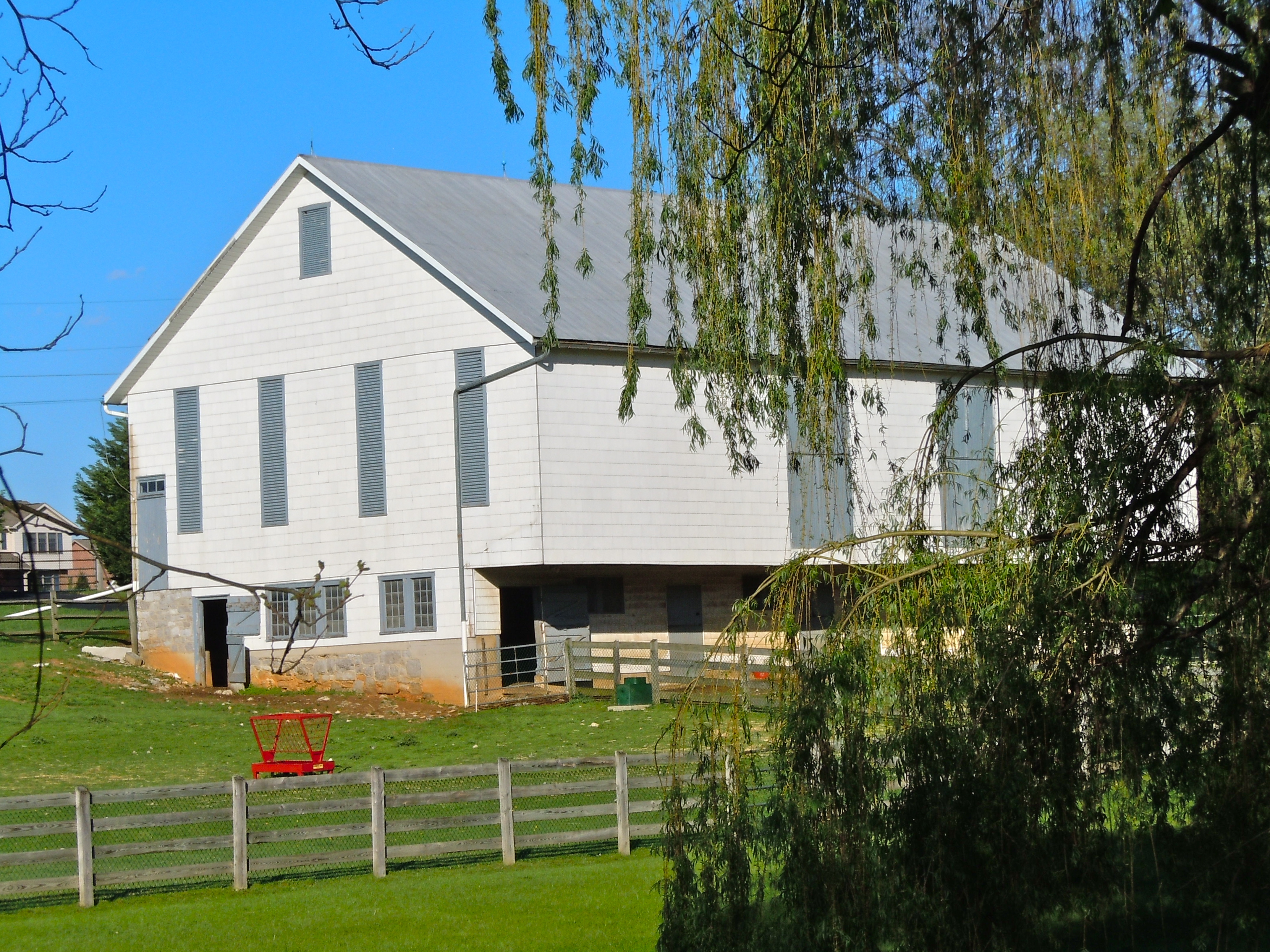 Coldbrook Farm on the NRHP since March 28, 1996. At 955 Spring Lane, Chambersburg, Franklin County, Pennsylvania, a few blocks north of US 30. There are some no trespassing signs near the main buildings of the farm, but the owners are nice enough to allow passage nearby on foot for trout fisherman.